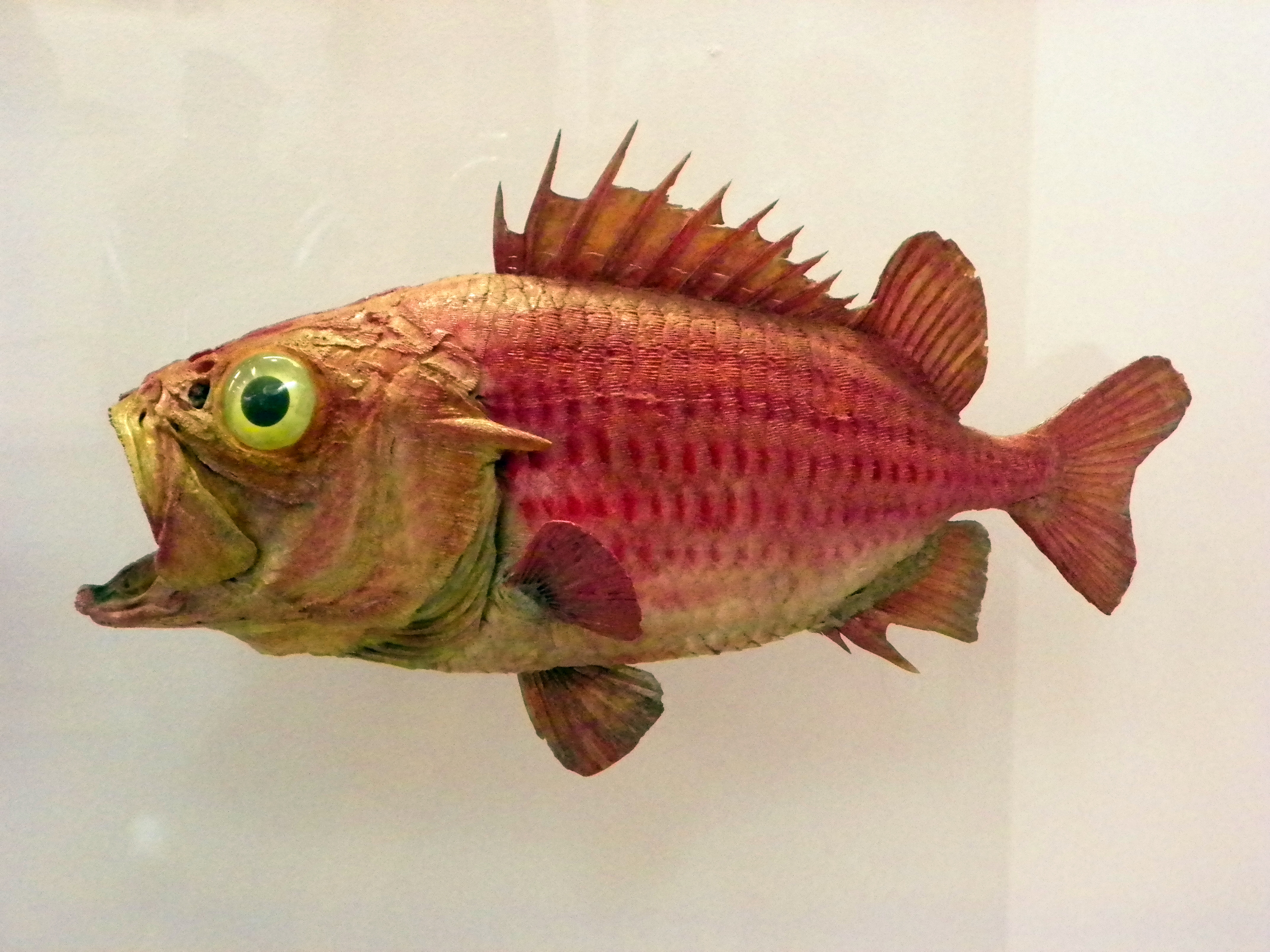 Soldier fish (Ostichthys japonicus). Natural History Museum, London, 27 August 2012.